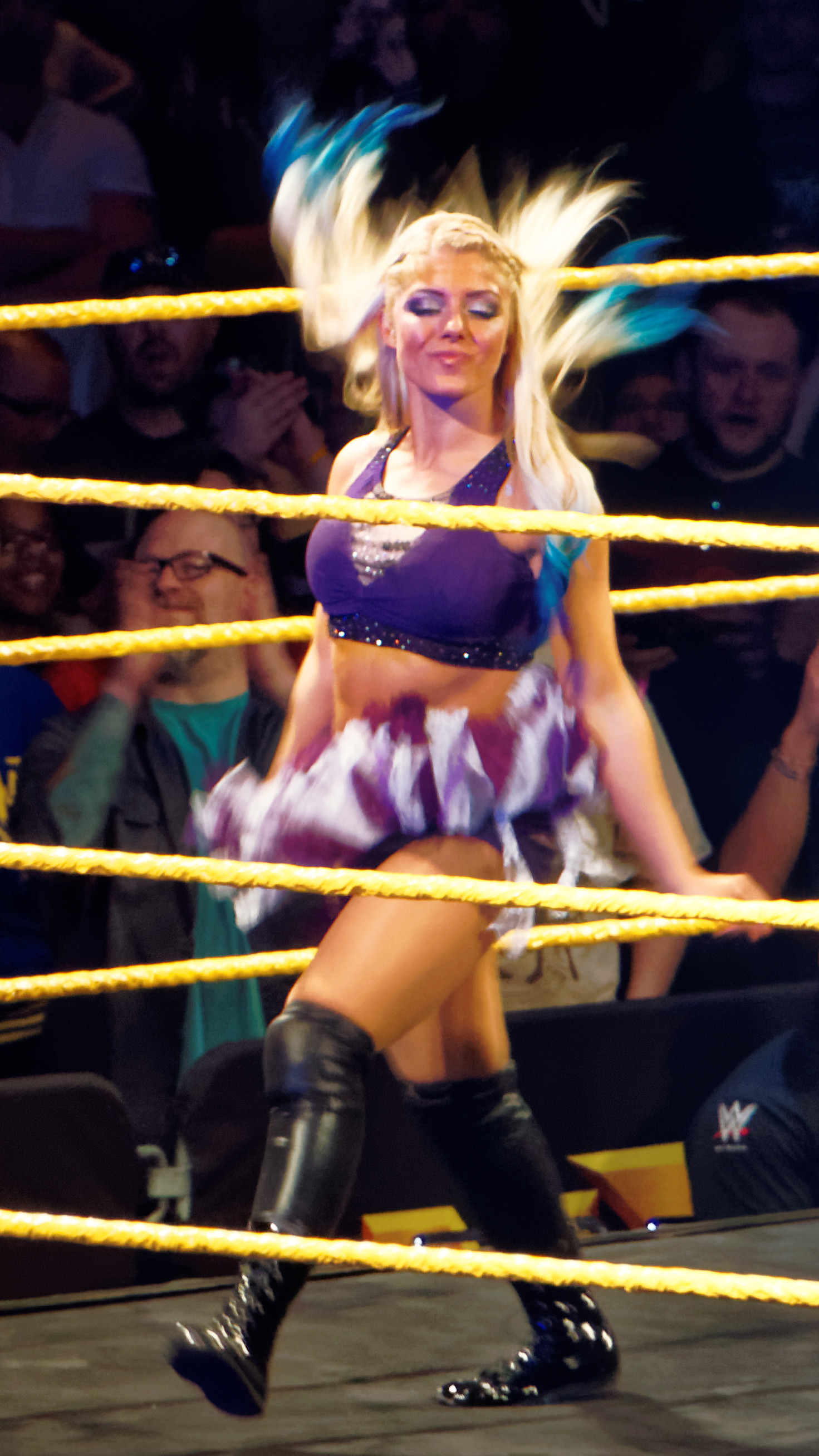 Alexa Bliss at an NXT house show